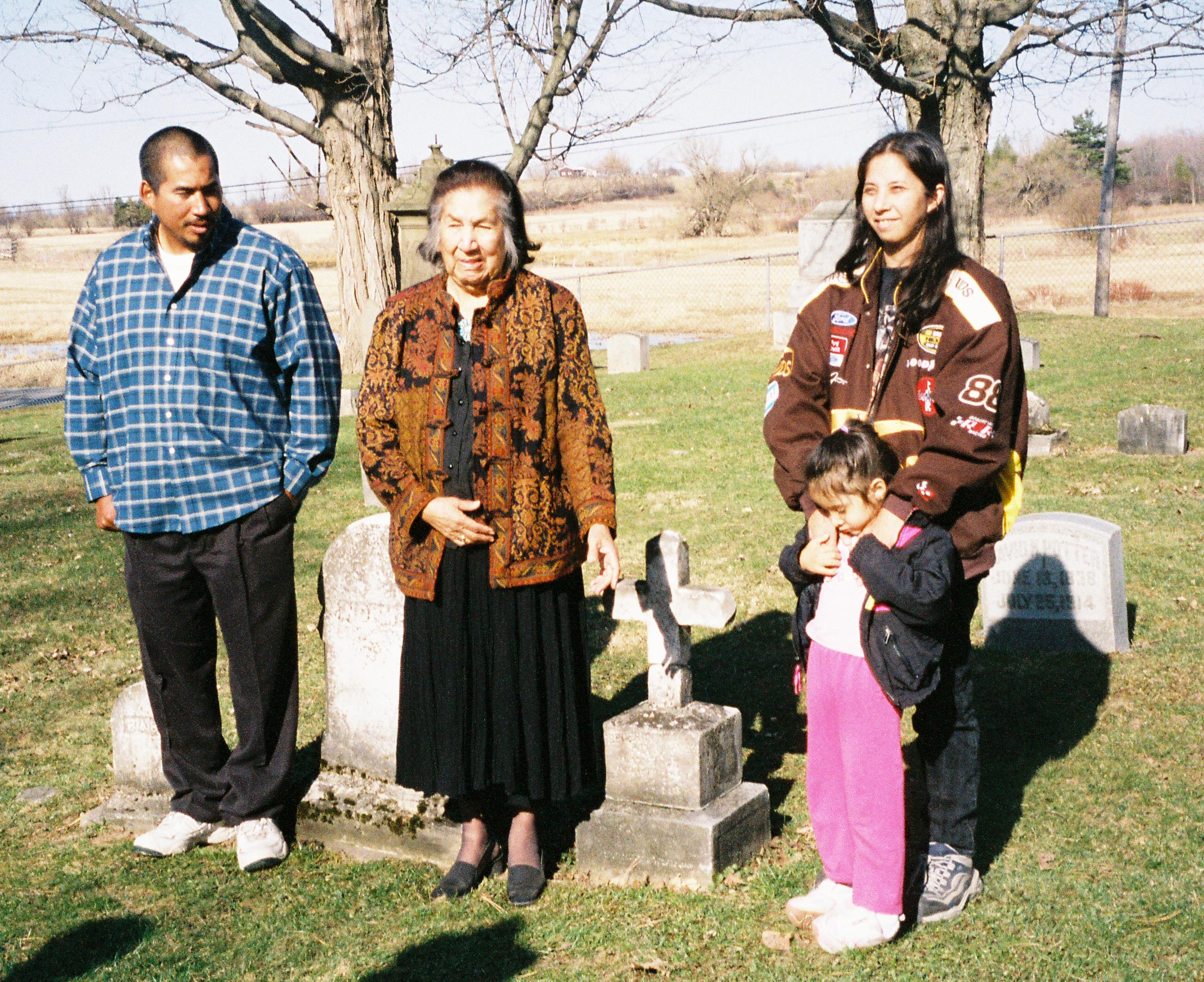 In April 2005, O-kuh-ha-tah descendants (great-great grandson, Jack Southmeth; granddaughter Elizabeth Whiteshield; great-granddaughter Kim Whiteshield; and great-great granddaughter Starr Whiteshield) travelled from Oklahoma and Texas to a celebration at Grace Episcopal Church, a national shrine in Syracuse, NY. Prior to the celebration, the descendants travelled to St. Paul’s Episcopal Church in Paris Hill (near Utica) to visit O-kuh-ha-tah’s home church and the graves of their ancestors. Photo by Susan Keeter